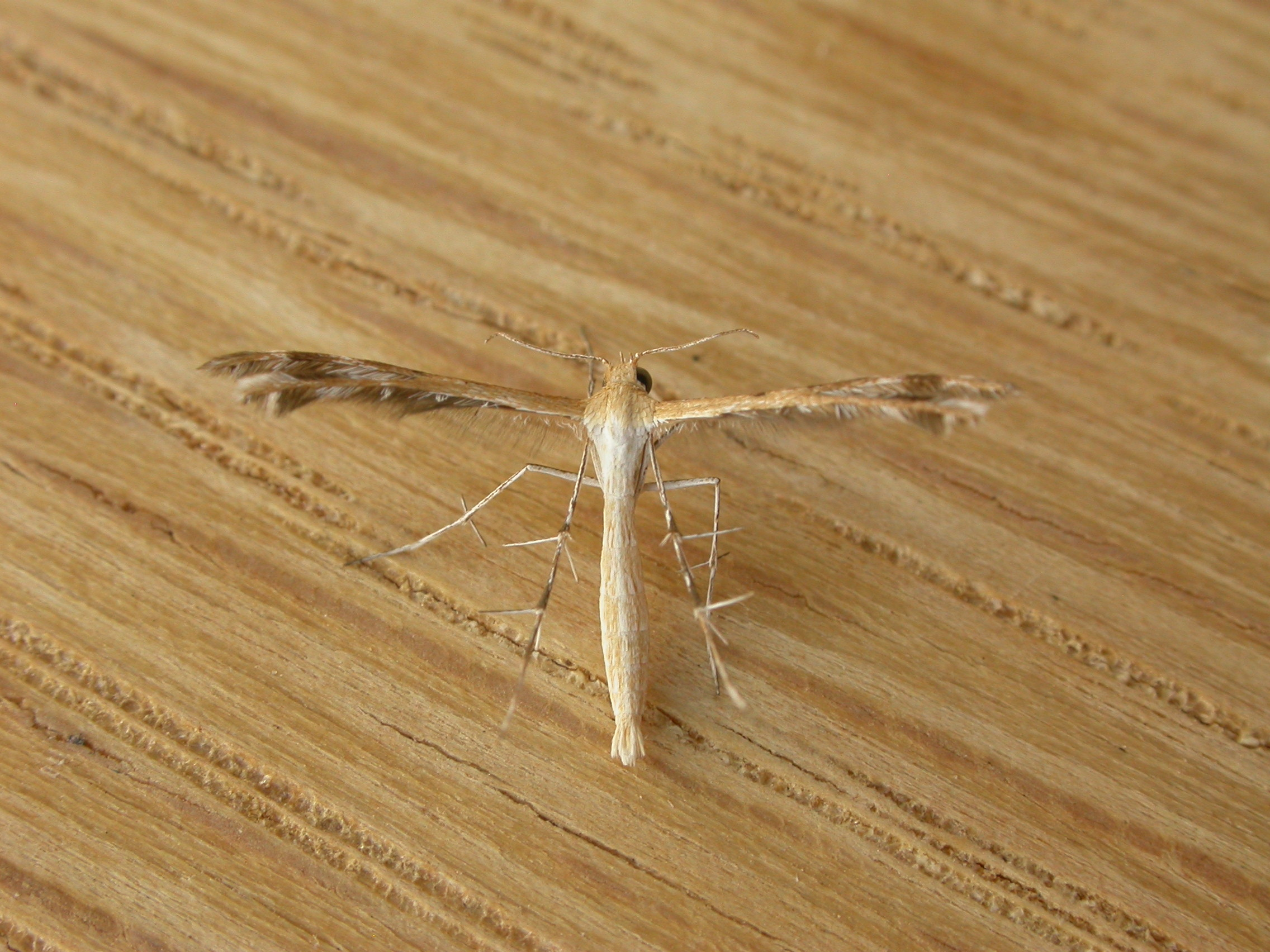 Megalorhipida leucodactyla (Fabricius, 1794), to MV light, Aranda, ACT, 5/6 January 2009 Browner than Stangeia xerodes , with dark lines on legs spiralling slightly rather than running directly lengthwise, and abdomen less strongly marked.